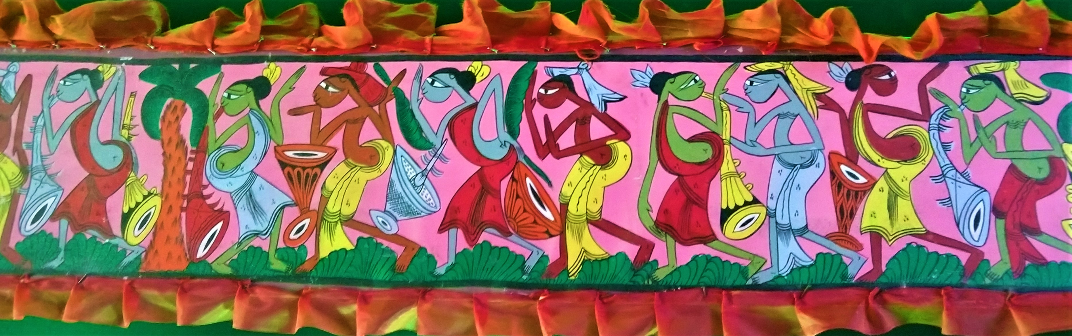 Bengal Patachitra